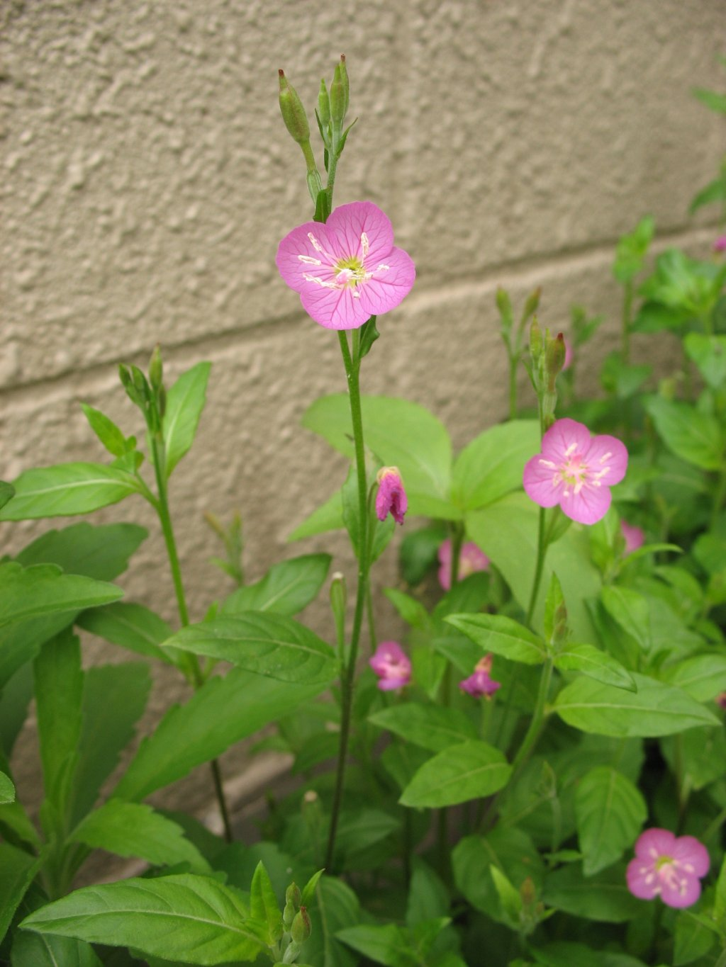 Photograph of Oenothera_rosea, taken in Tama city, Tokyo, Japan. Resized.